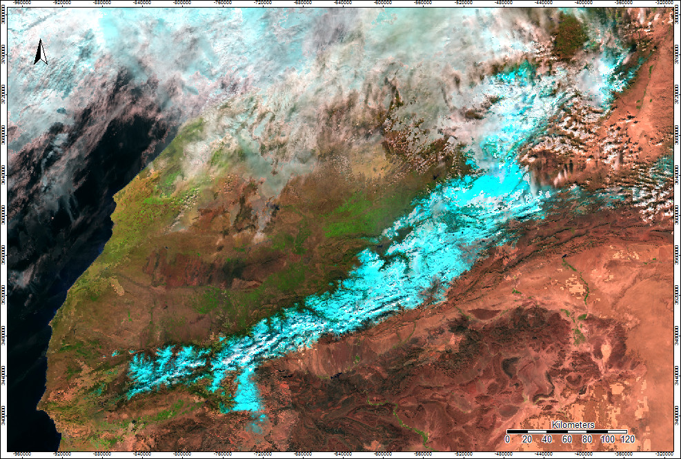 RGB(SWIR,NIR,red);500m resolution bands) VIIRS instrument (NASA)